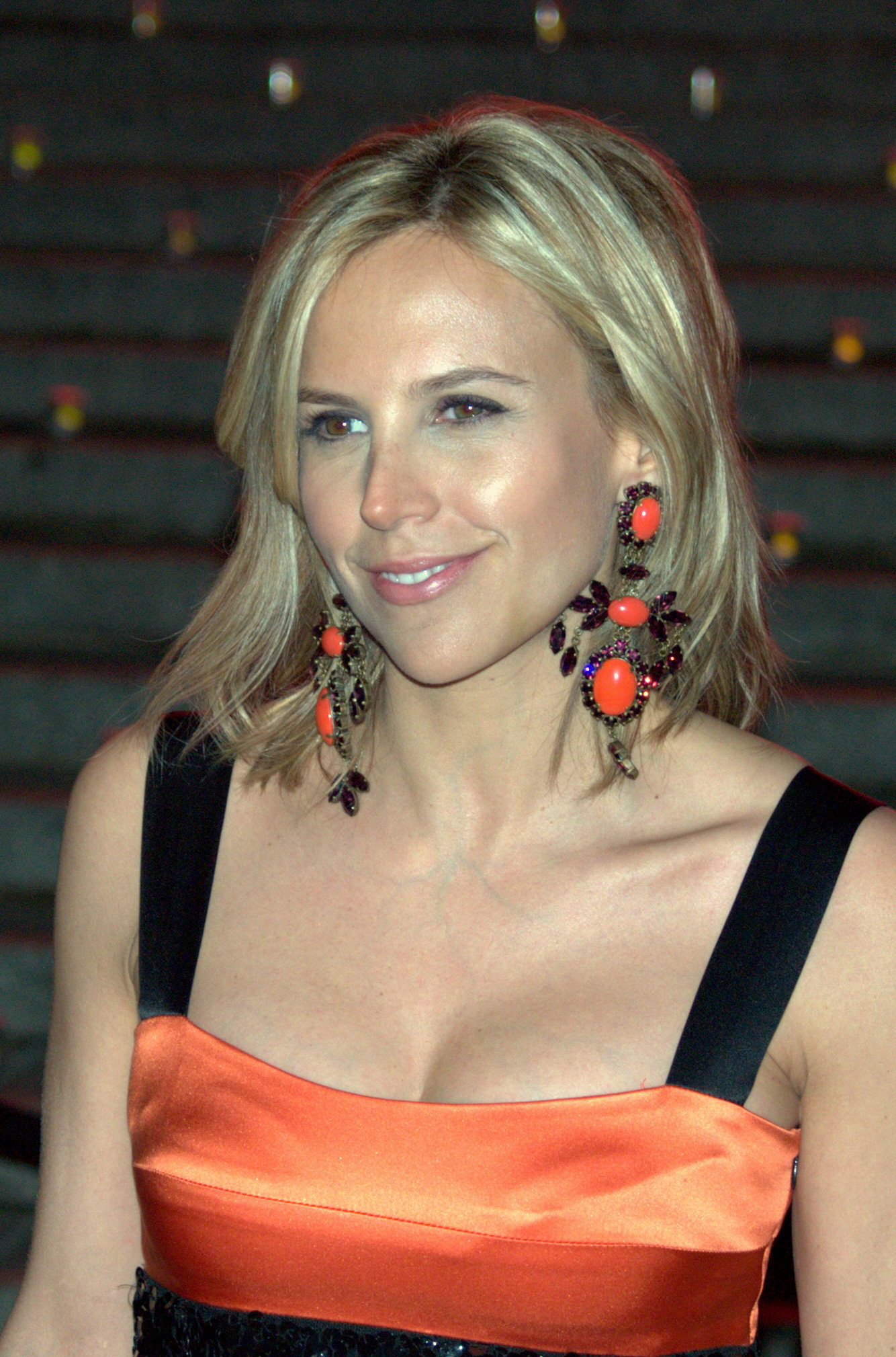 Tory Burch at the Vanity Fair celebration for the 2009 Tribeca Film Festival.